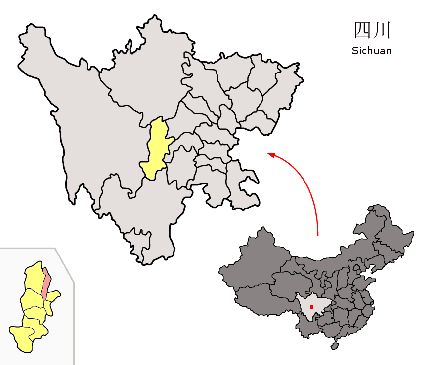 Location of Lushan County (pink) and Ya'an Prefecture (yellow) within Sichuan province of China Map drawn in october 2007 using various sources, mainly : Sichuan province administrative regions GIS data: 1:1M, County level, 1990 Sichuan Counties map from